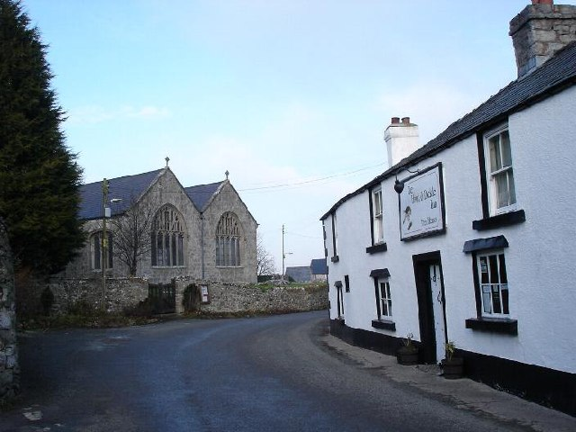 The centre of Llannefydd, Conwy County Borough, Wales. On the right is the Hawk and Buckle pub. Centre left is the parish churhc of SS Nefydd and Mary.